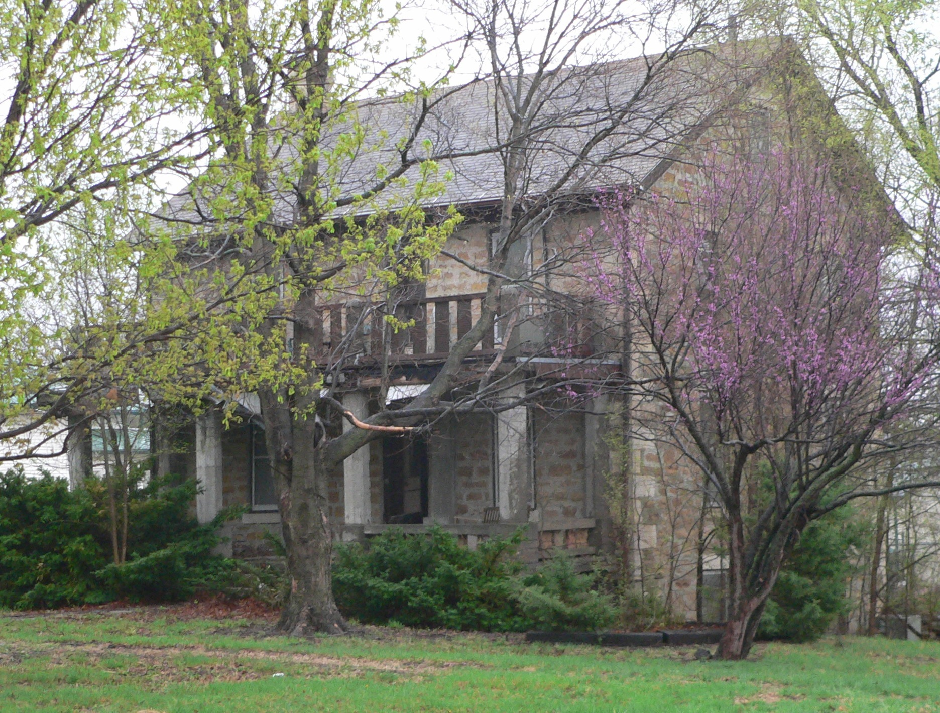 Lindsley House, located on south side of Luzerne Street about one block west of downtown Table Rock, Nebraska; seen from the northwest.